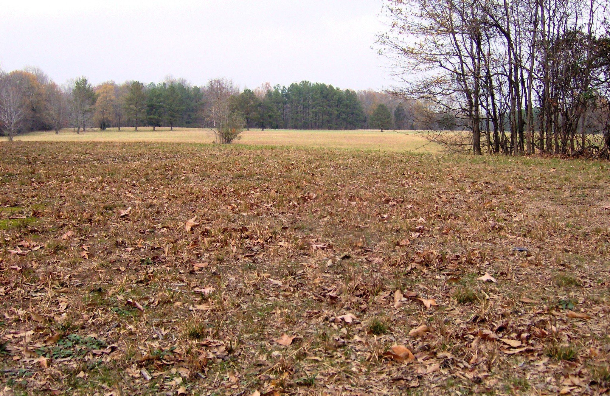 Looking across the top of Mound 10 into the field below at Pinson Mounds State Archaeological Park in Madison County, Tennessee, located in the Southeastern United States. Mound 10, which rises about 2 meters above the ground, was most likely a ceremonial platform mound. Excavators have located a central hearth near the mound's center.